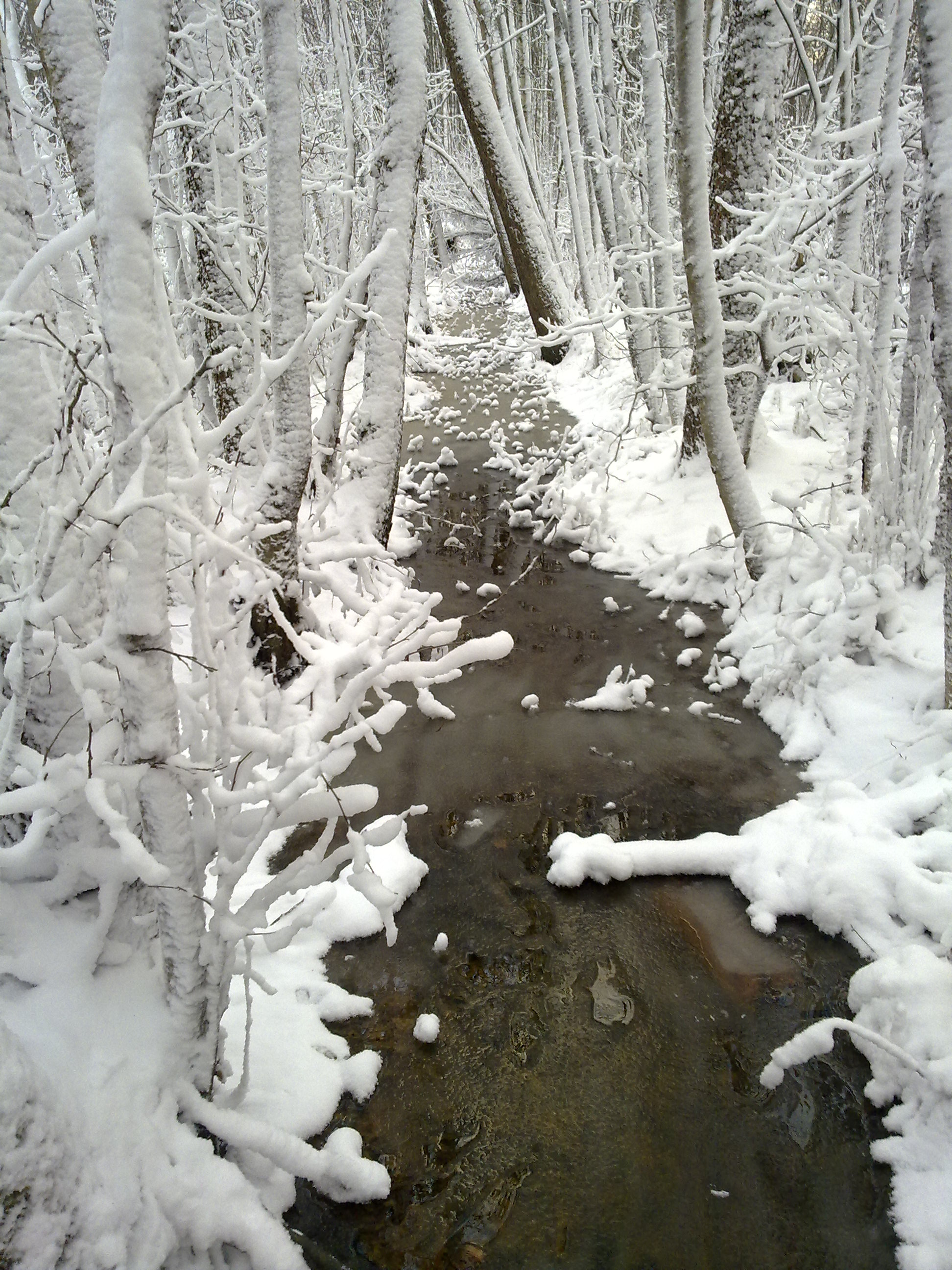 Stream in Enäjärvi, Pori, Finland.